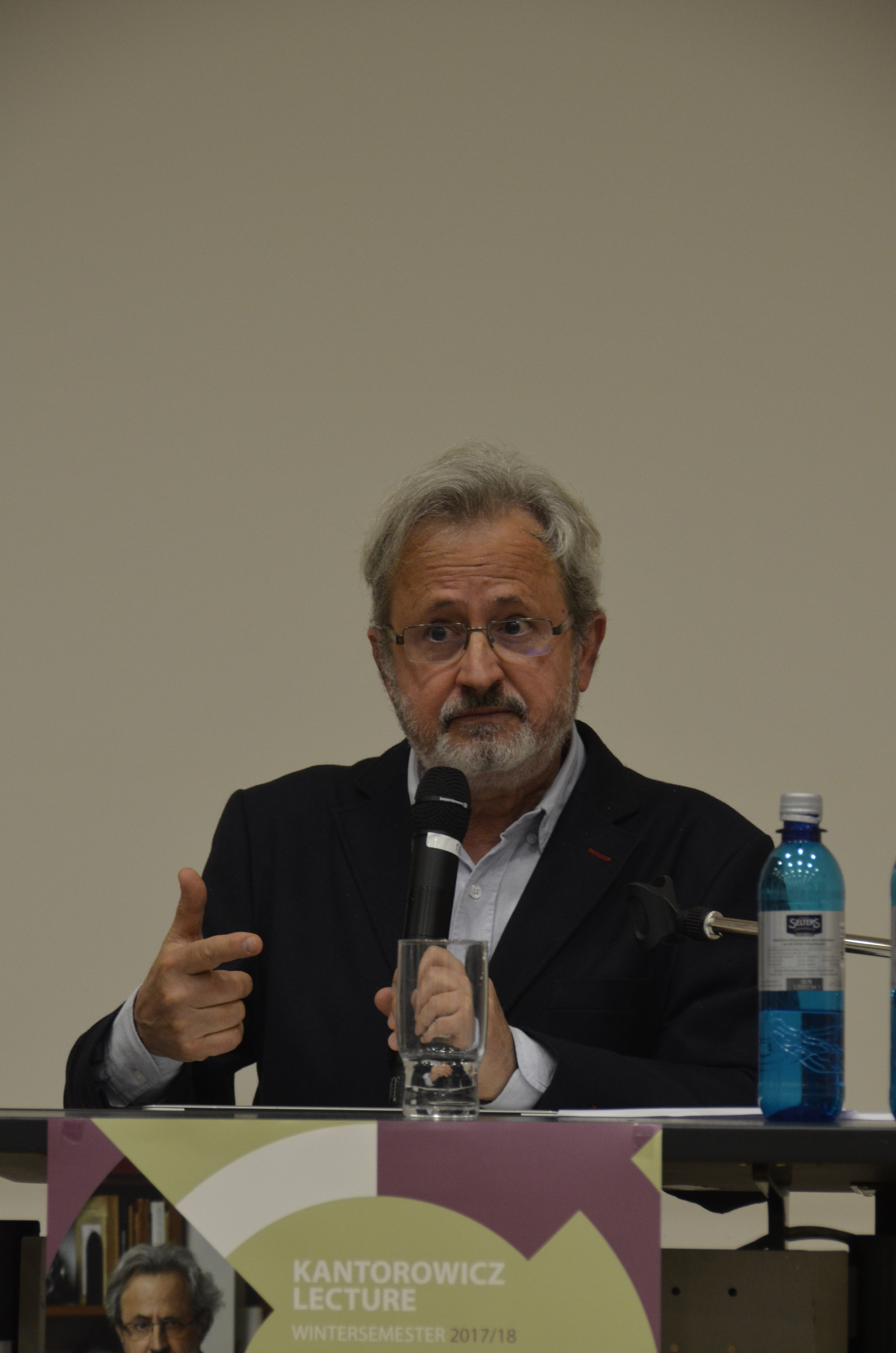 Eduardo Viveiros de Castro lecturing the 2017 Kantorowicz-Lecture at the Goethe-University titled Against the Ontological Exceptional Position of ‚Our Species‘.